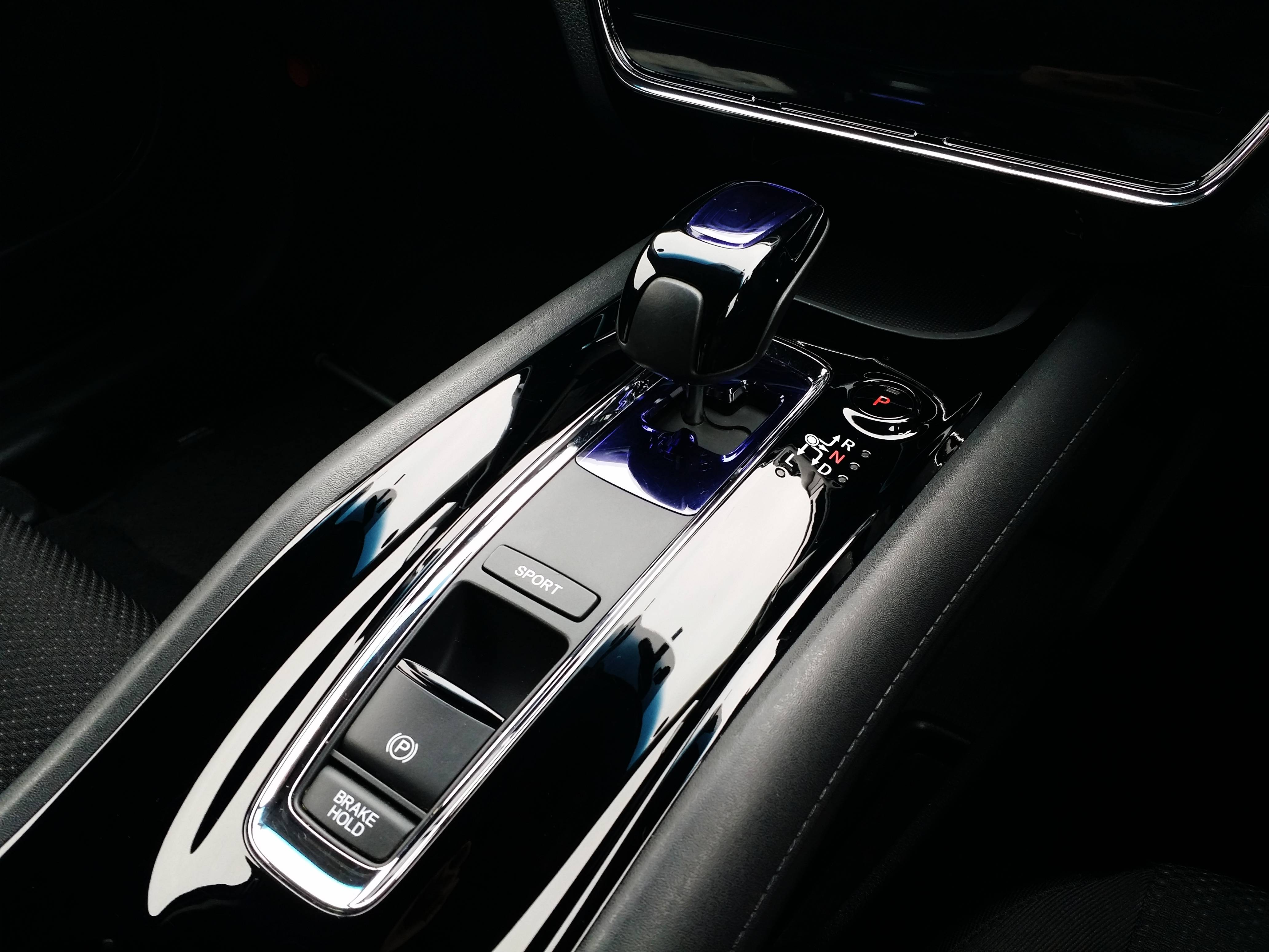 Honda Vezel Hybrid floor console.